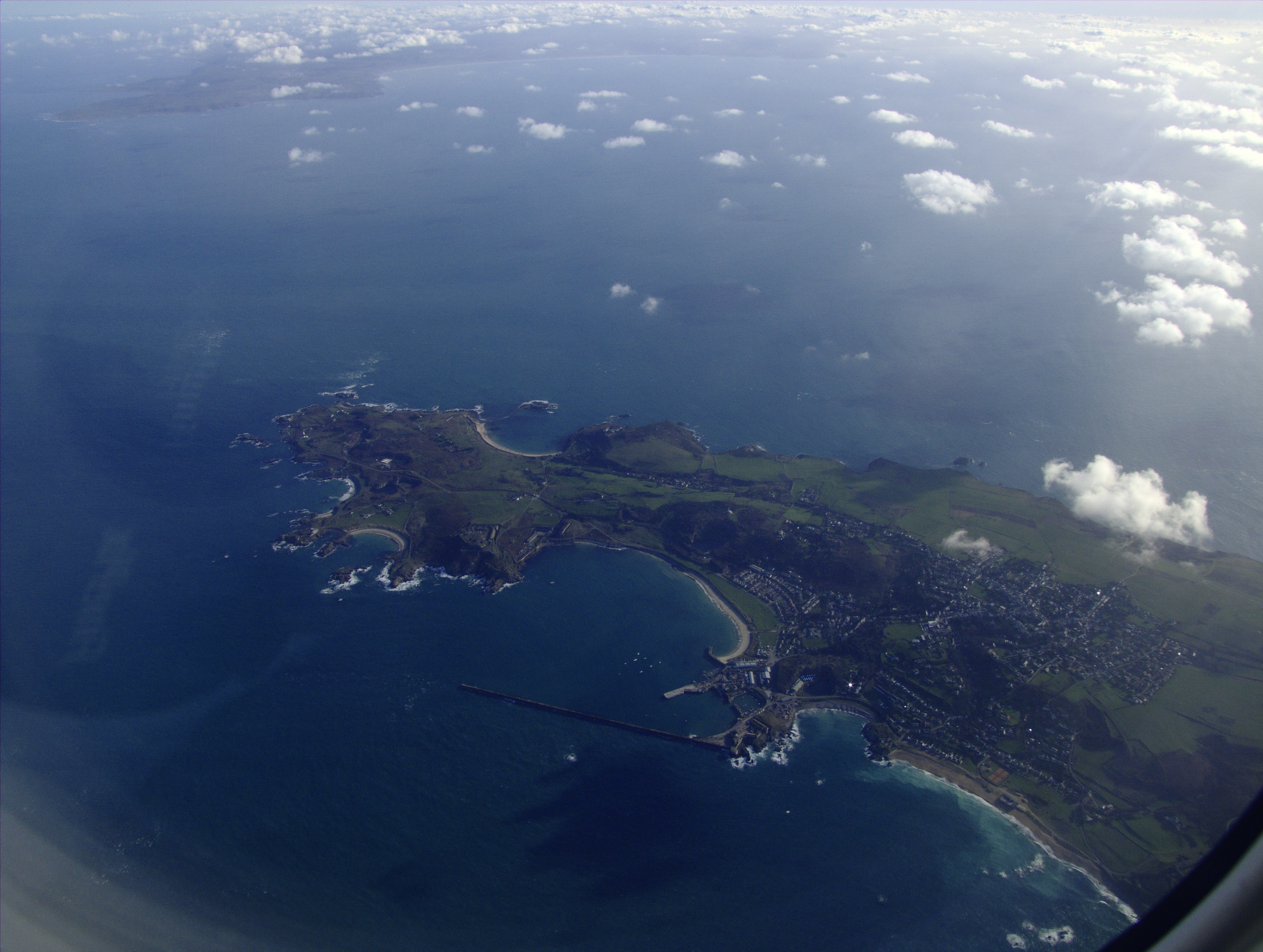 Alderney from the air. Notice how the town of St. Anne dominates much of the island.